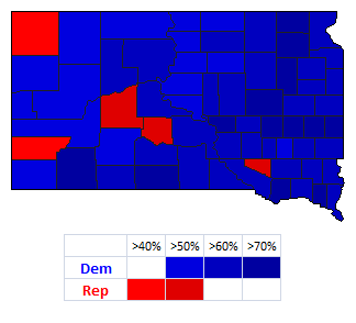 Map of the 1998 United States Senate election in South Dakota